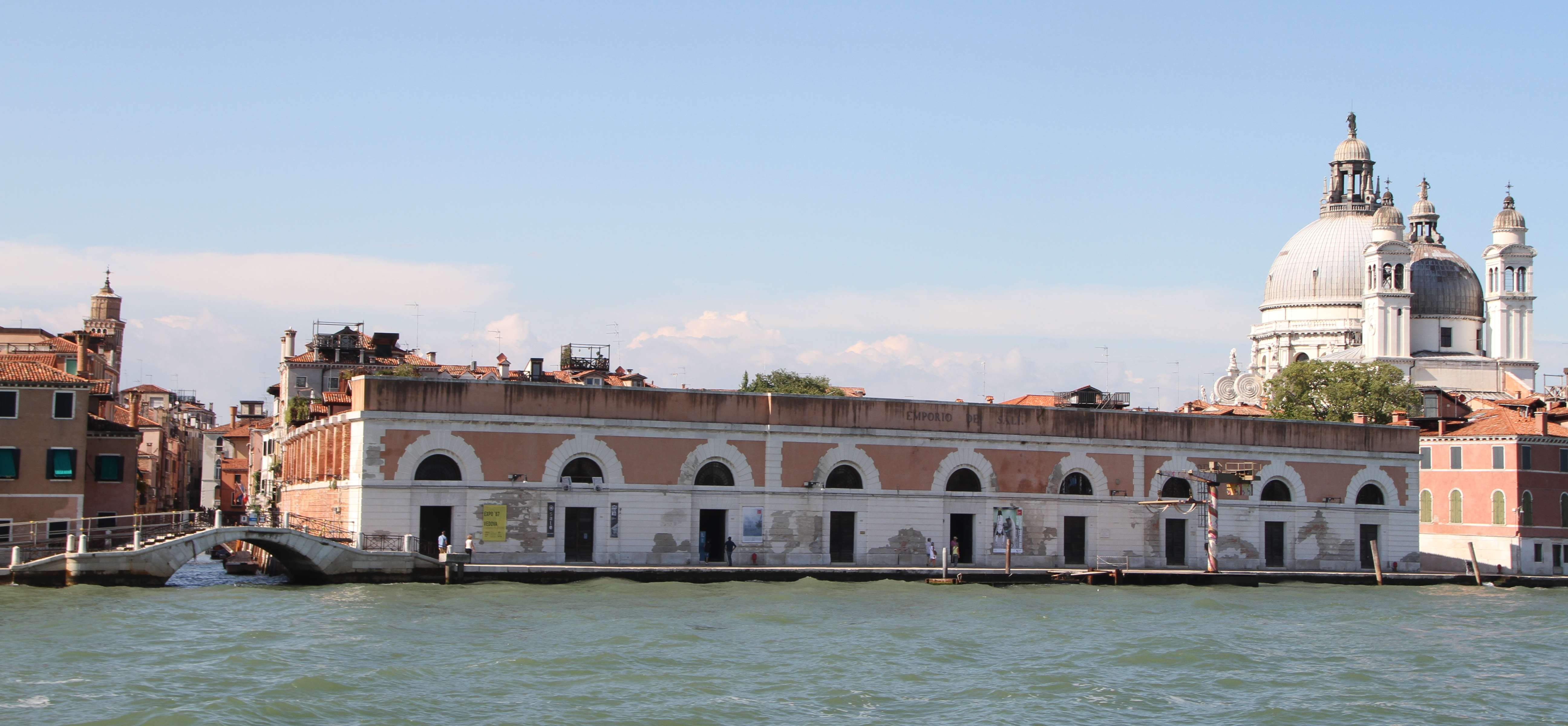 Image from the Dorsoduro south shore of Venezia, Italy